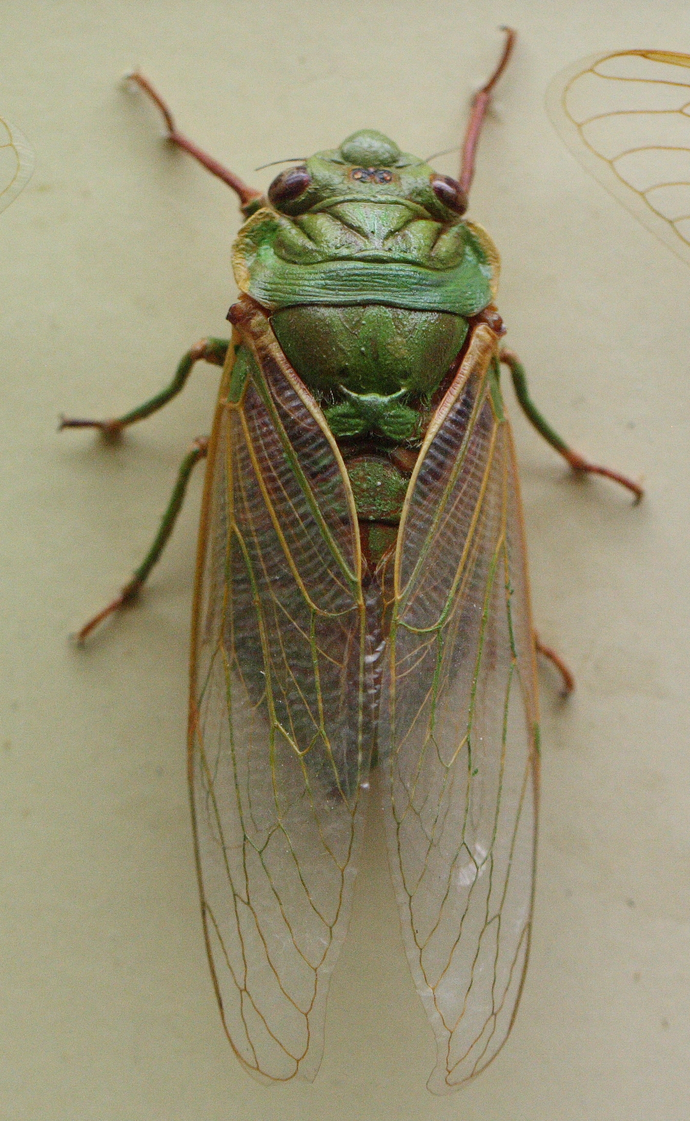 Specimen in the Australian Museum cicada display.